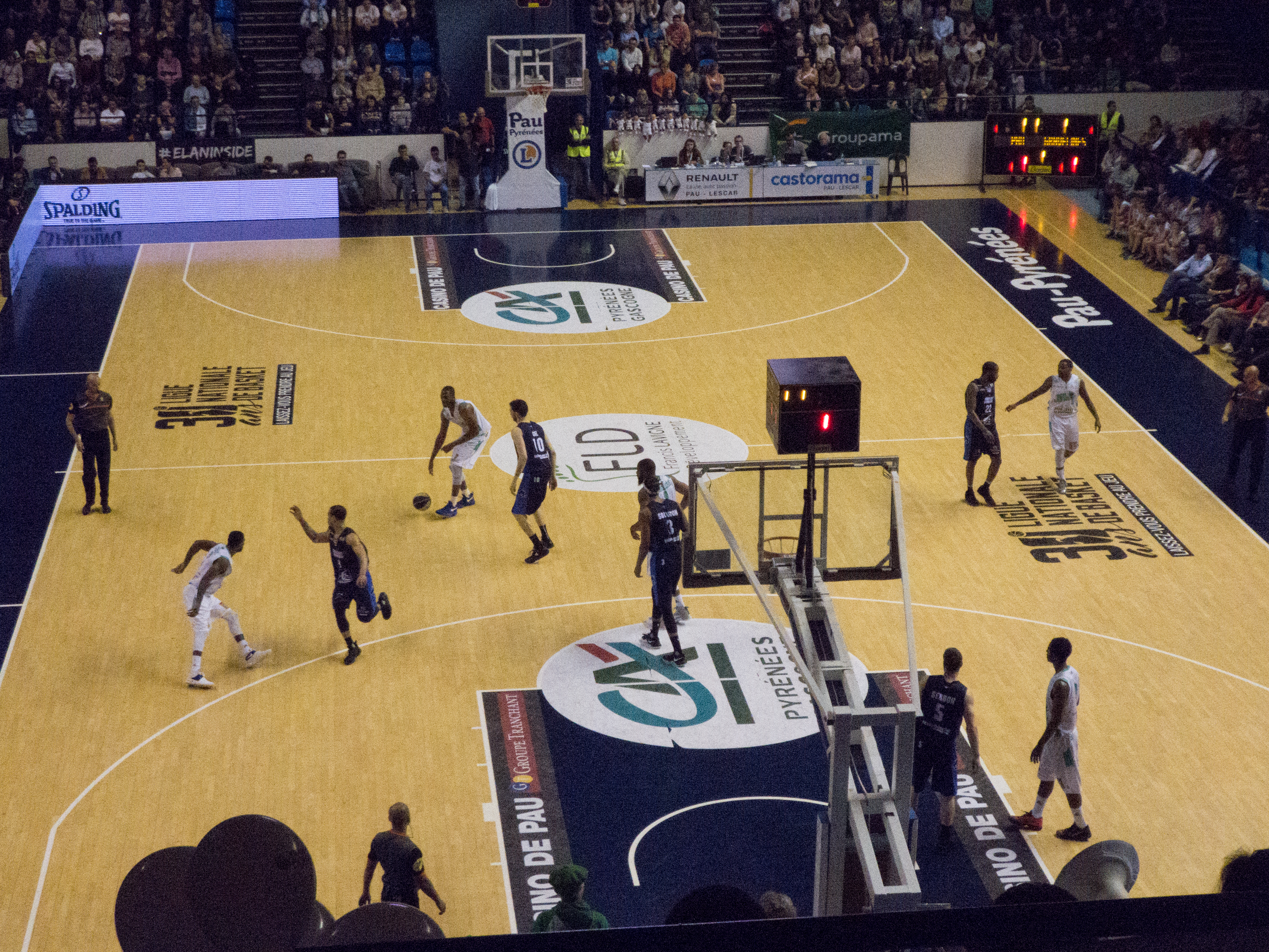 2016–17 Pro A season — 25 April 2017, Palais des Sports de Pau. Match between: Élan Béarnais Pau-Lacq-Orthez — BCM Gravelines